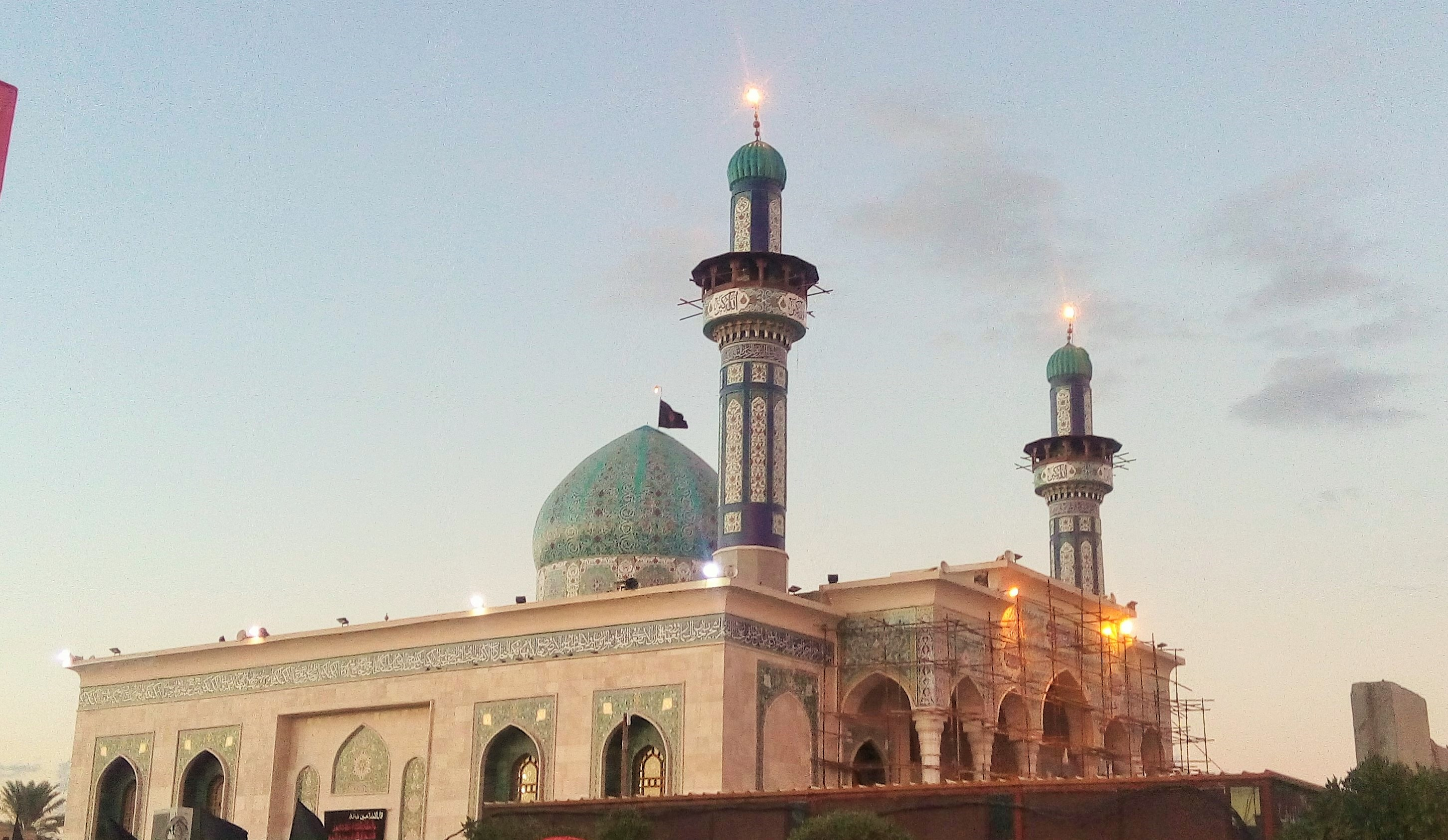 Holy Shrine of Hussein ibn Ali's companion.